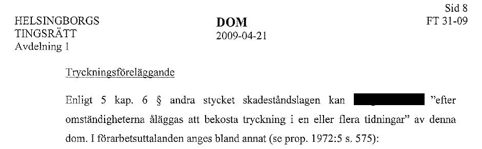 Dom 2009-04-21 (s 8)